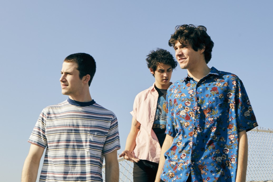 Wallows press photo from Warner/Atlantic in 2018.